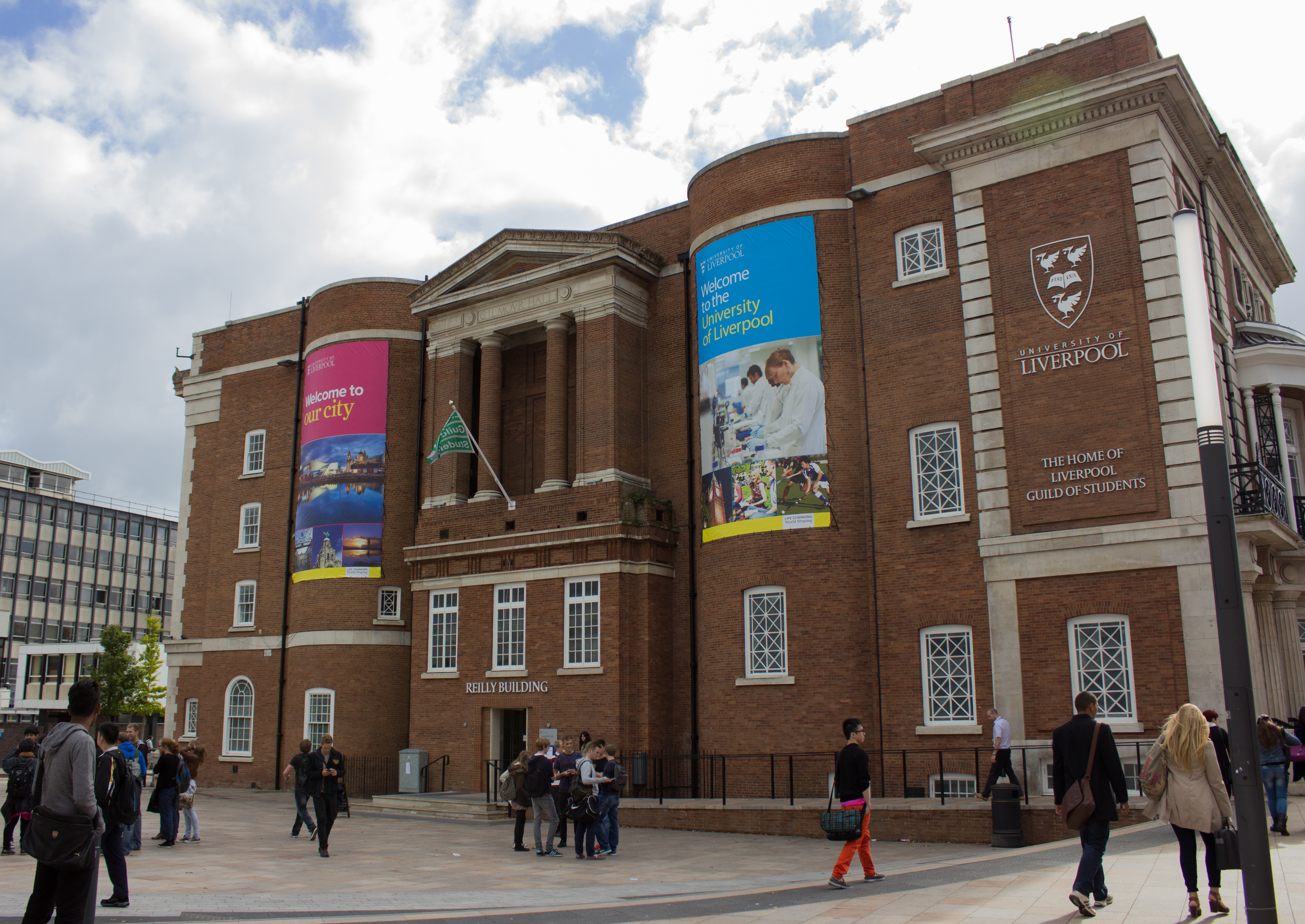 The front of the Liverpool Guild of Students building after the 2014 renovation.